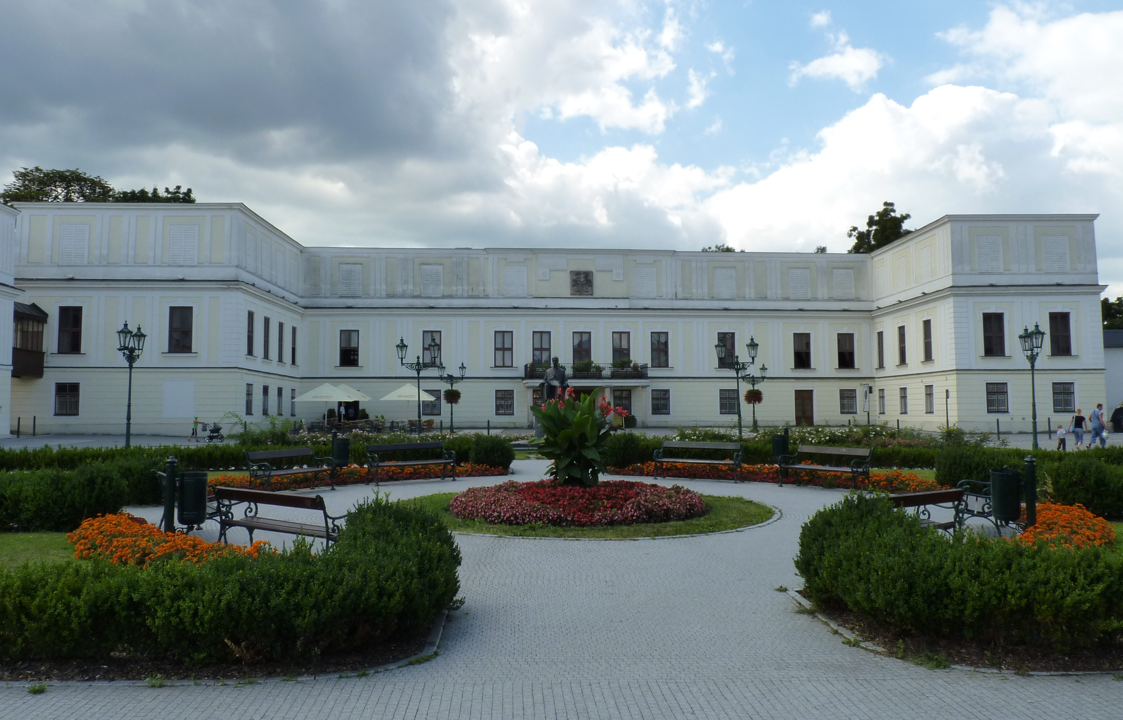 Castle in Fryštát. Karviná, Karviná District, Moravian-Silesian Region, Czech Republic